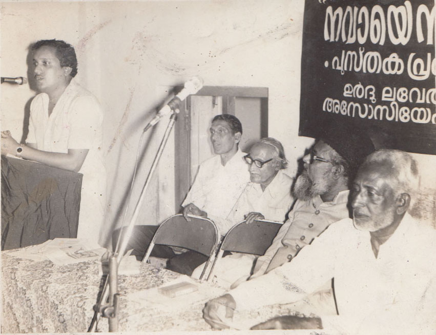 Sarvar's Navaye sarvar Releasing